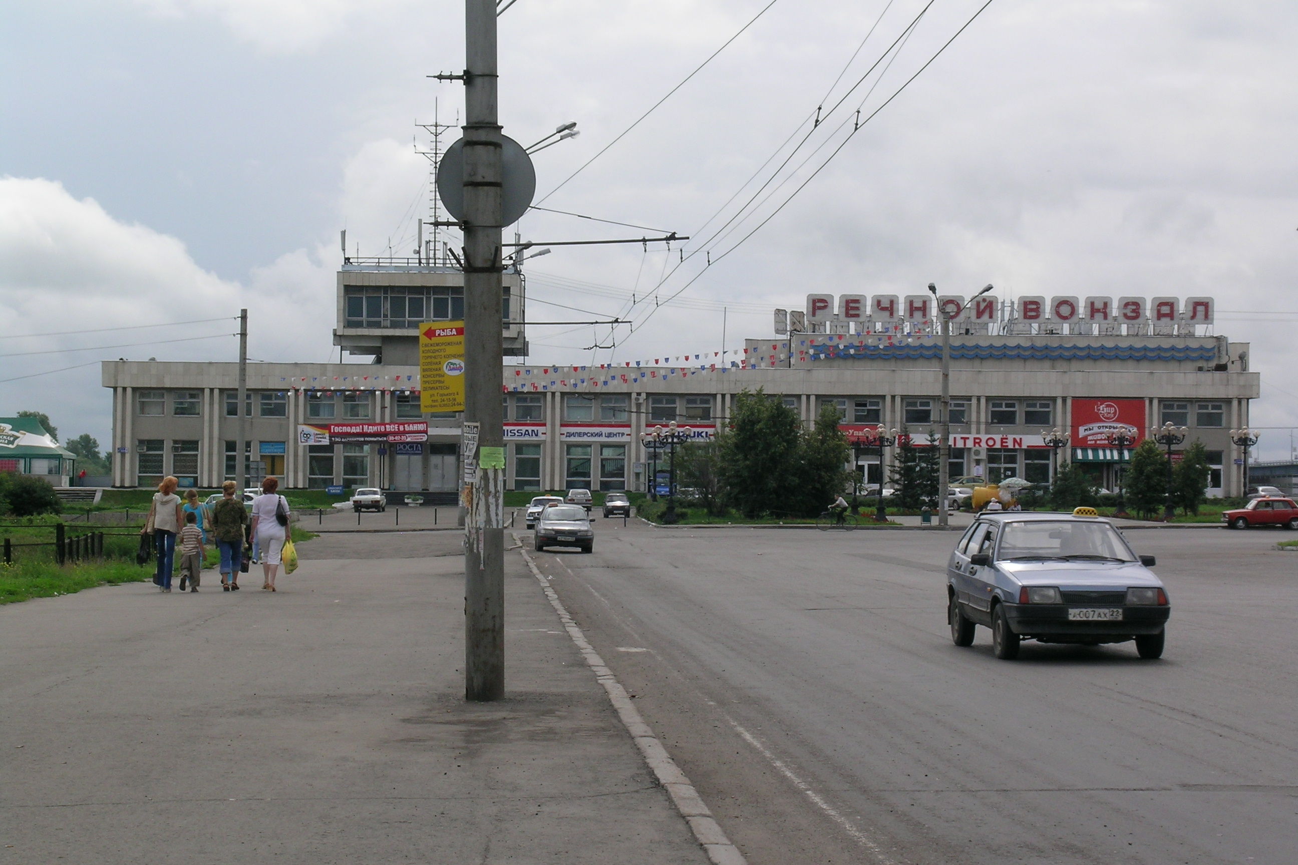 Barnaul. River boat station. Photograph taken in 2006. Барнаул. Речной вокзал.